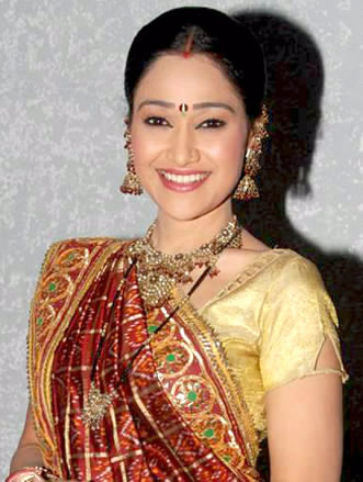 Disha Wakani on the sets of KBC